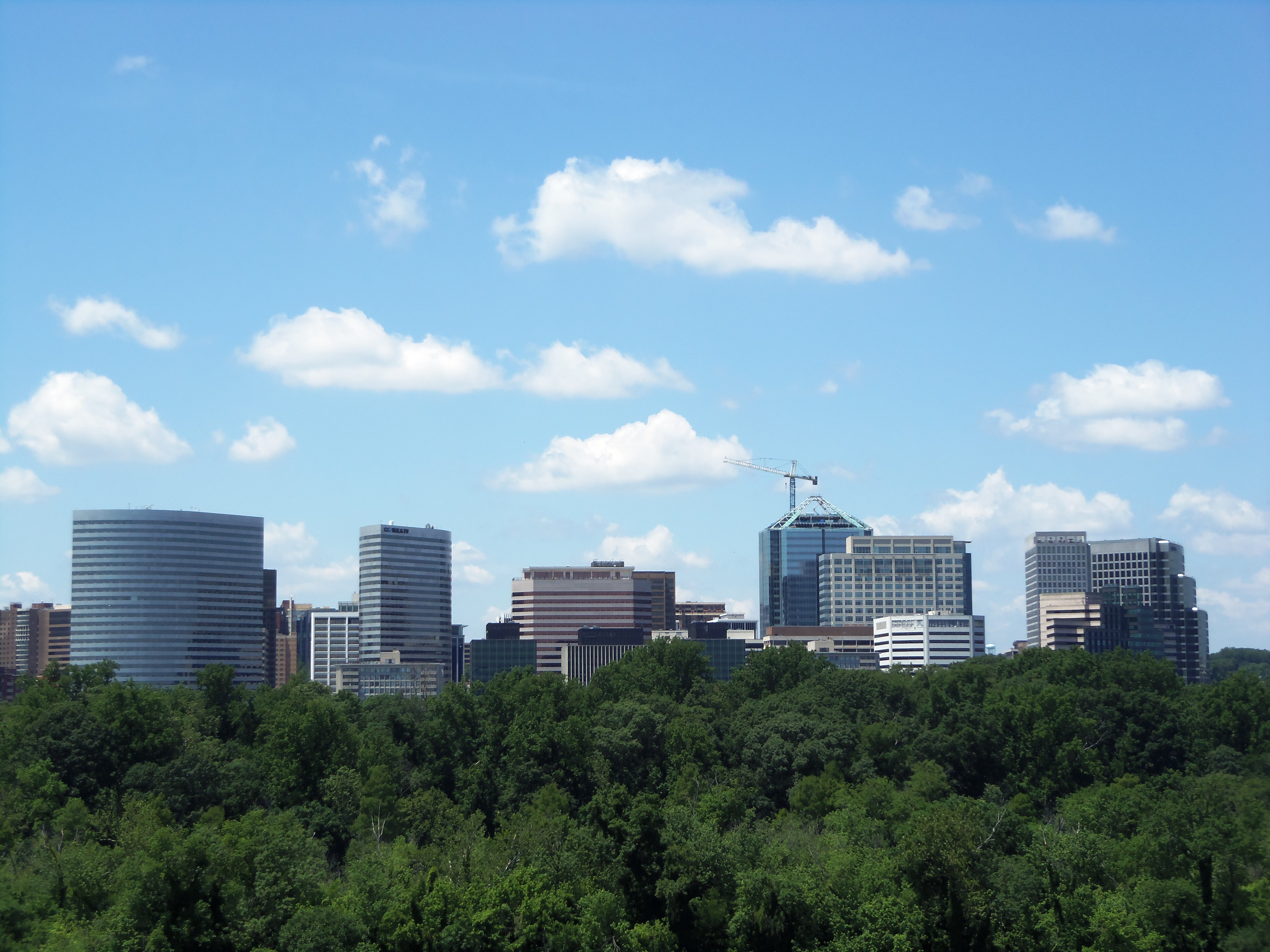 The buildings in Rosslyn, Arlington, Virginia from the Kennedy Center in Washington, D.C.